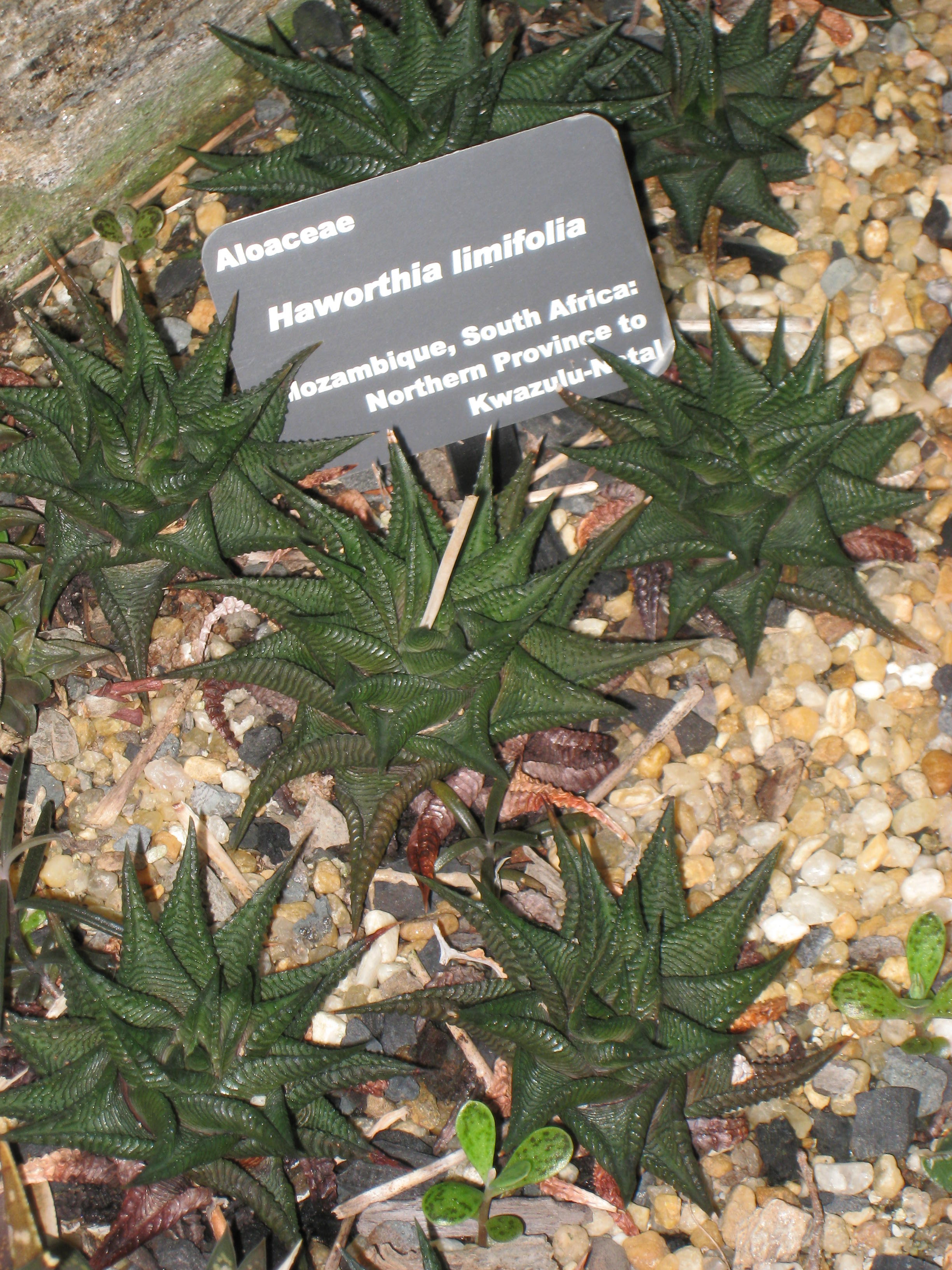 Haworthia limifolia. Specimen in the Atlanta Botanical Garden, Atlanta, Georgia, USA.